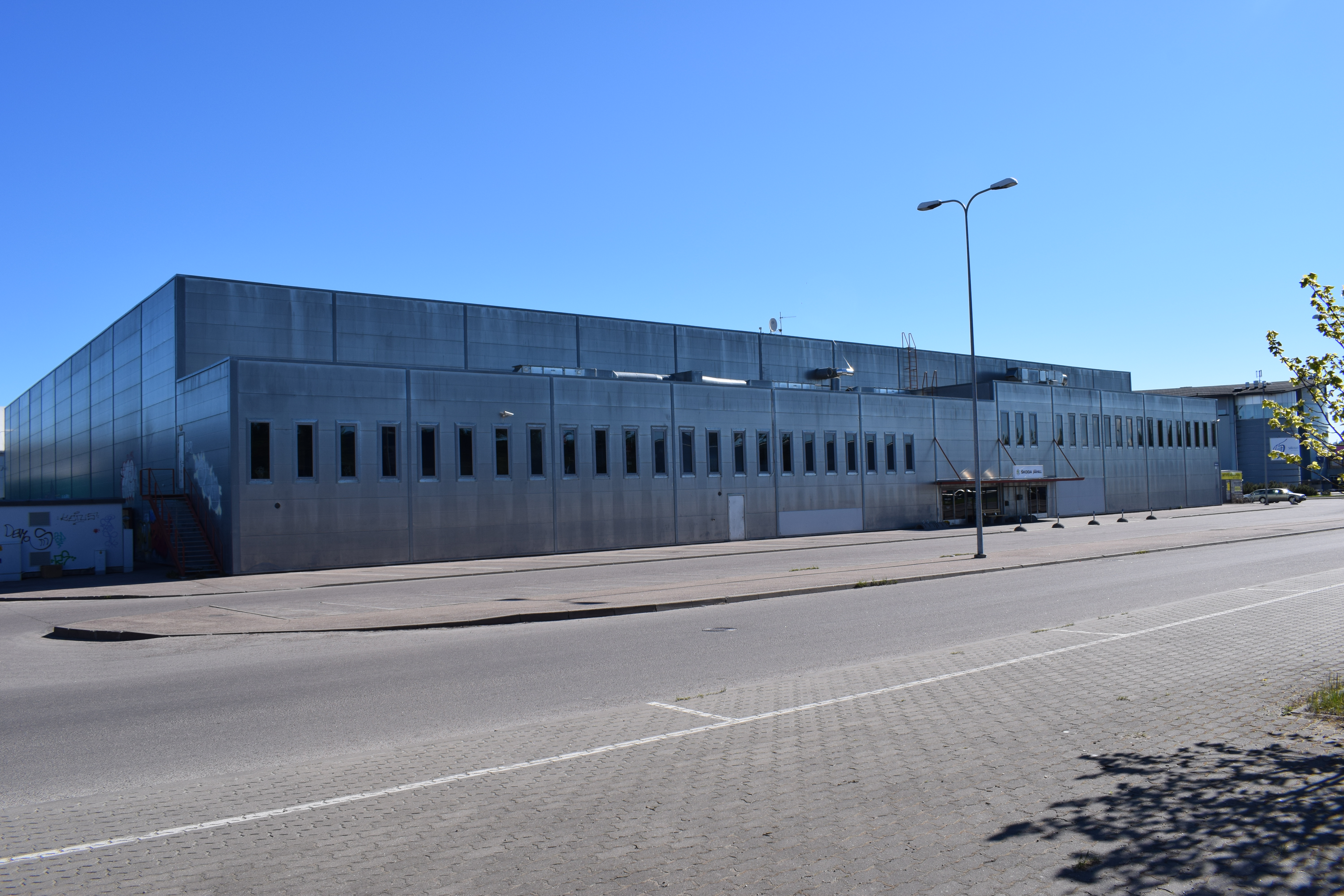 Škoda Ice Hall